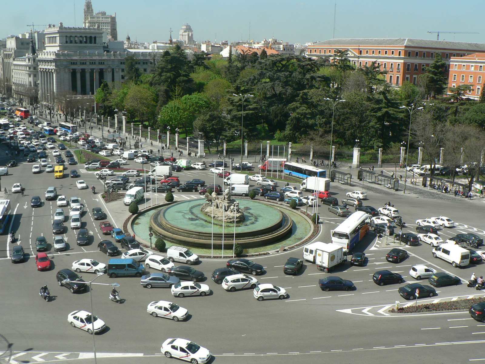 Plaza de Cibeles (square) in Madrid (Spain).